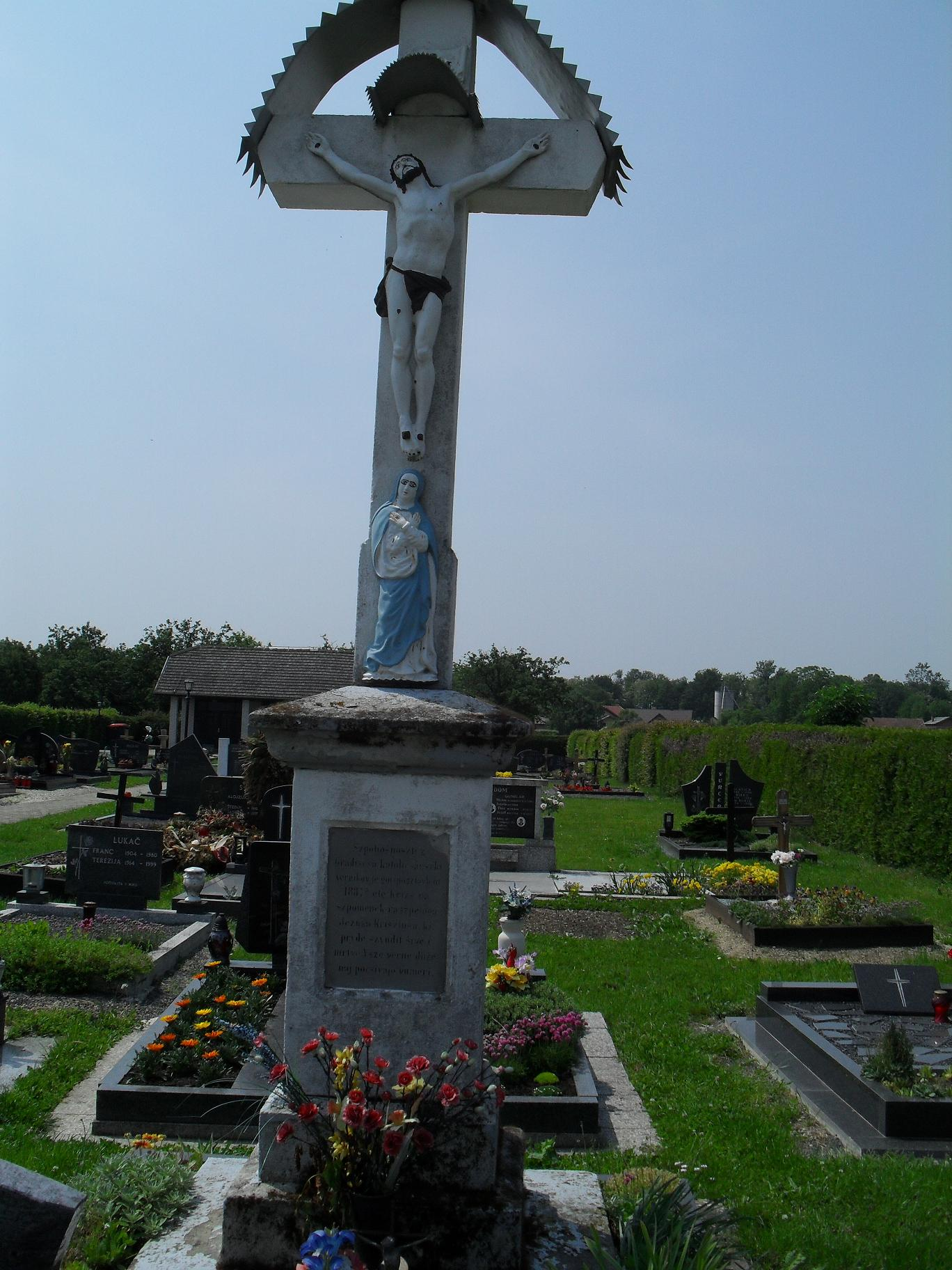 Cross in the Gradišče cemetery, near Tišina in Prekmurje from 1887. Inscription in prekmurian language (prekmurščina 1)